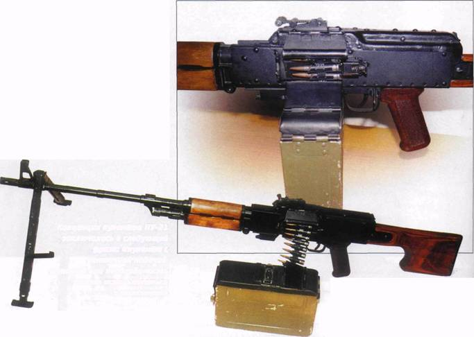 Demonstration photo